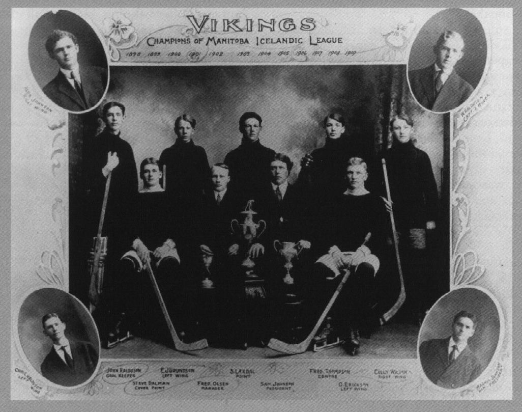 Winnipeg Vikings hockey team of the Manitoba Icelandic League in 1909. NHA, PCHA and NHL player, as well as two time Stanley Cup champion, Cully Wilson is at the far right in the back row.